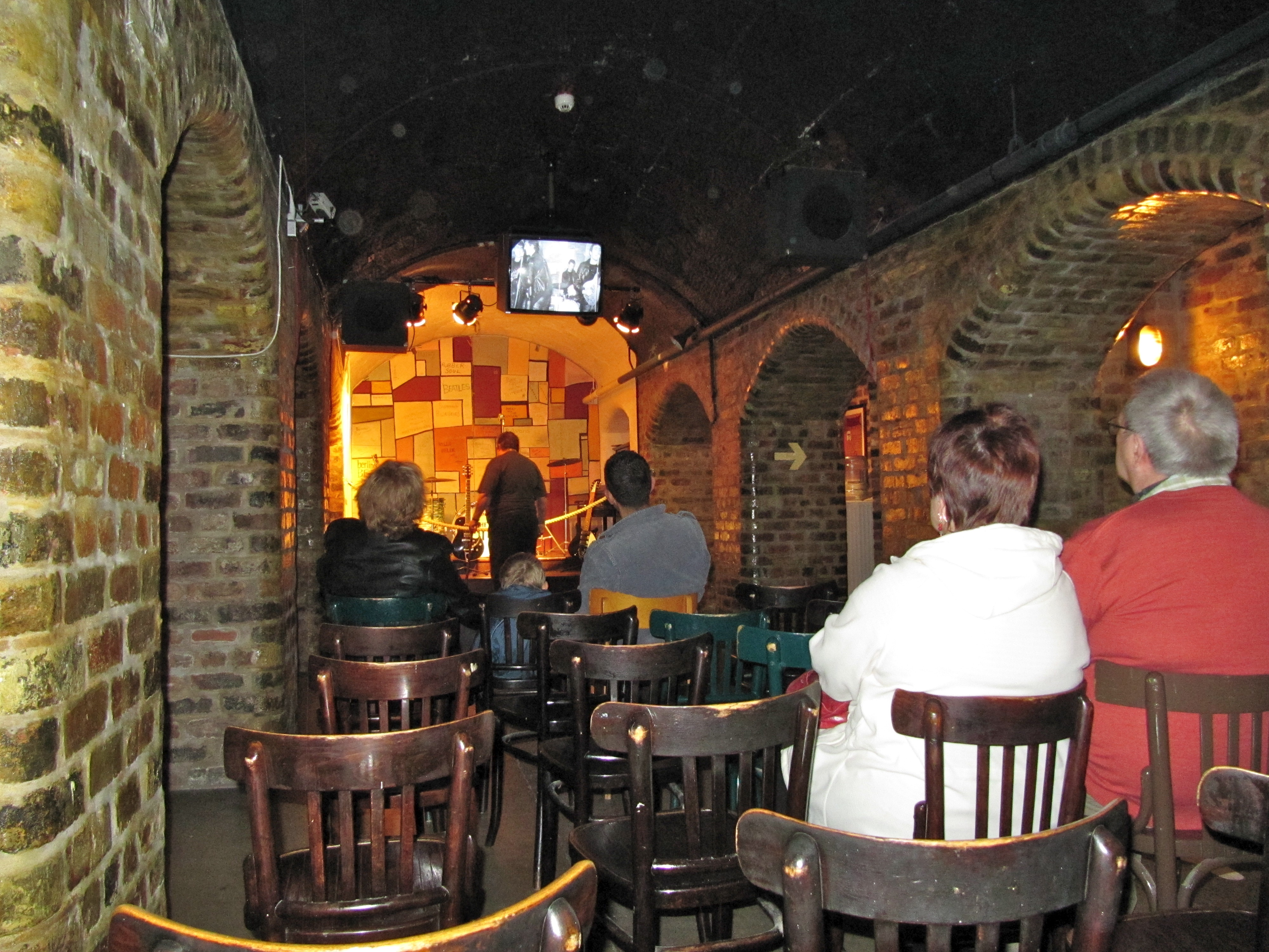 The Cavern replica of The Beatles Story museum